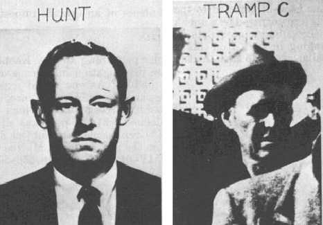 Three "tramps" were arrested shortly after the assassination of President John F. Kennedy, in 1979, the HSCA examined the photos of the tramps, comparing them to E. Howard Hunt.